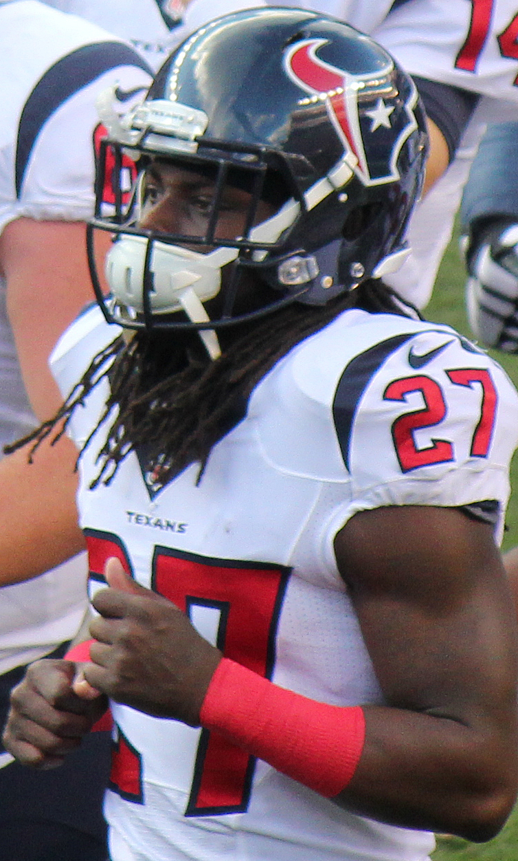 Josh Victorian, a player on the National Football League.